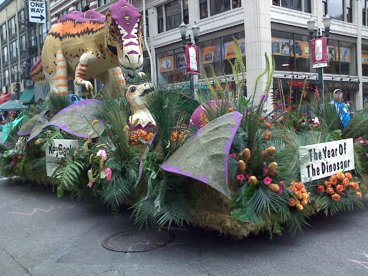 A float in the 2008 Grand Floral Parade of the Portland Rose Festival, in Portland, Oregon. This KeyBank-sponsored float was celebrating 2008's having been proclaimed the "Year of the Dinosaur" by Portland's mayor and the Metro Council in January 2008, in conjunction with a major exhibit at the Oregon Museum of Science and Industry.